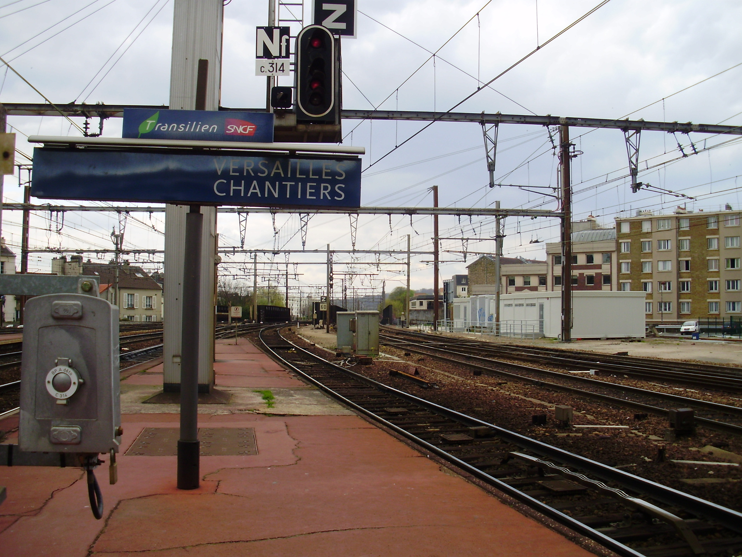 Versailles-Chantiers station, Yvelines, France - extremity of a platform towards Paris